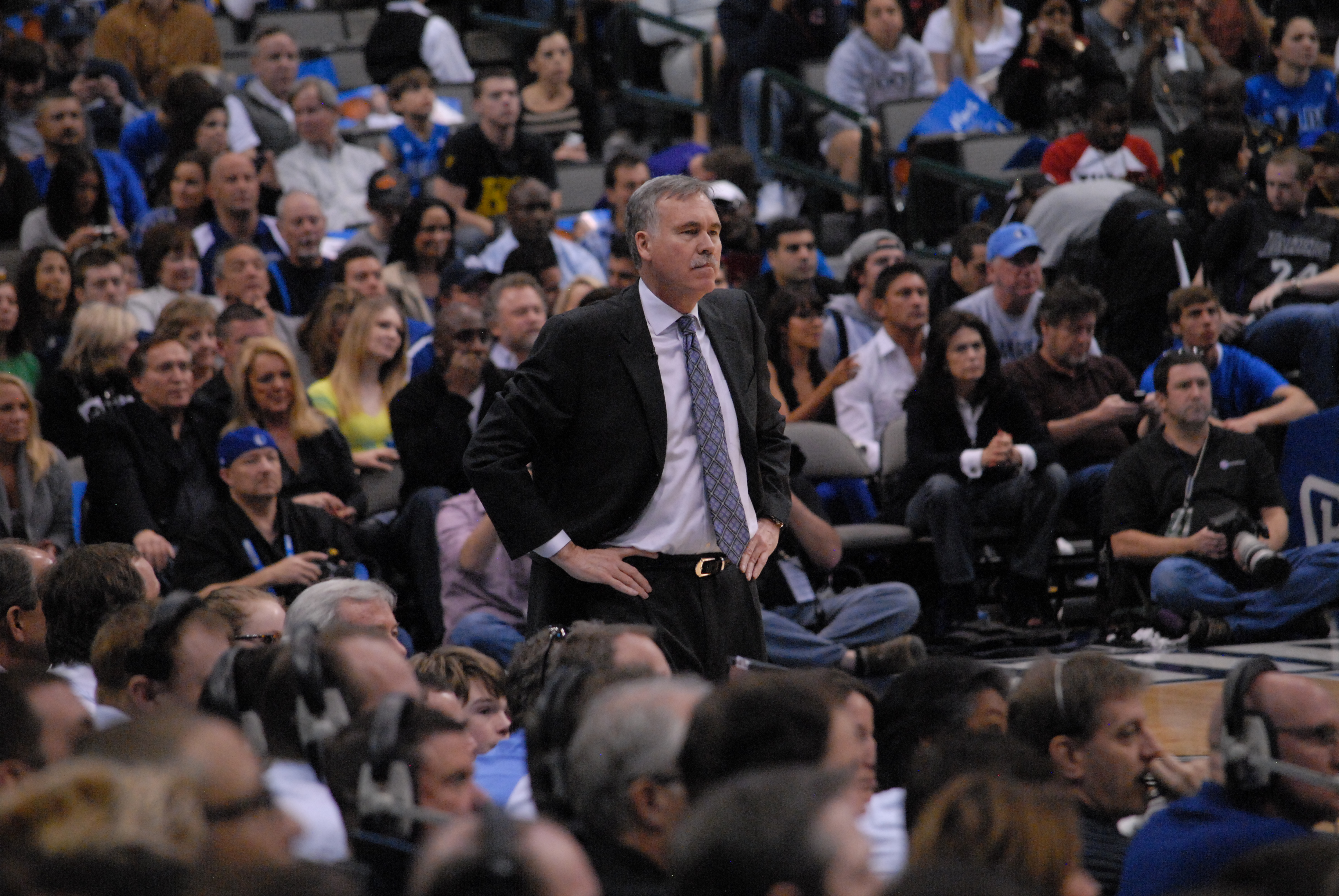 Lakers vs Mavs, February 2013